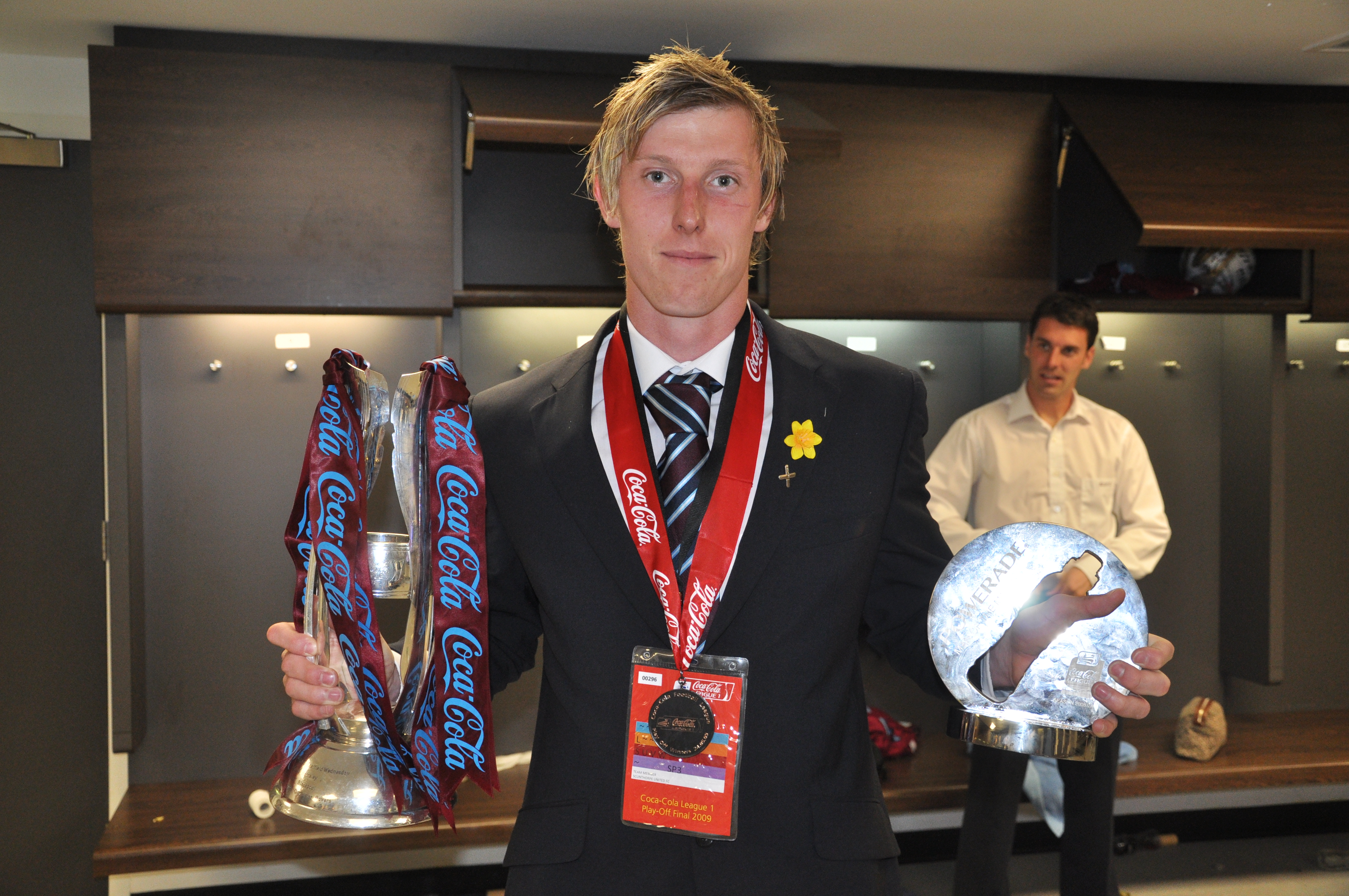 Martyn Woolford play-off final MOTM